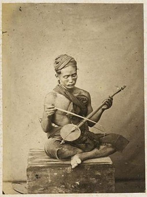 Karo Batak musician with bowed string instrument arba. Studio portrait. Probably original version of "Studioportret van een Karo Batak muzikant met een viool"